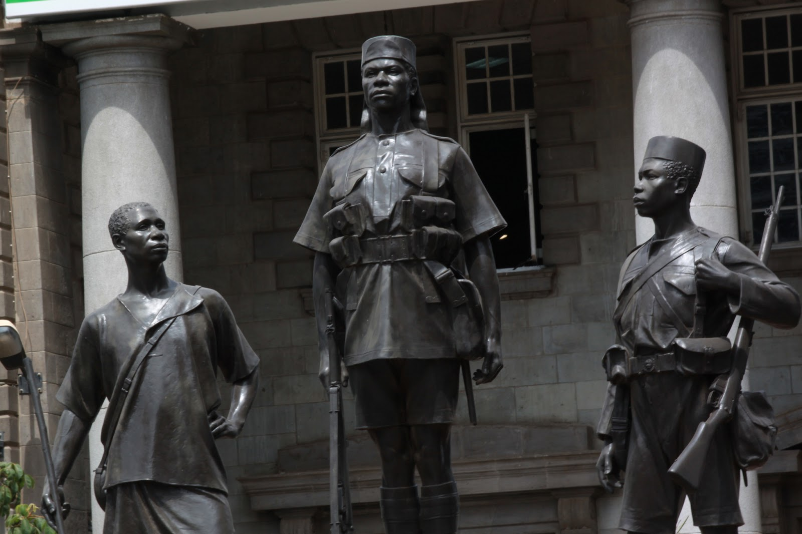 King's African Riffle (KAR) WWII monument at Nairobi, Kenya.